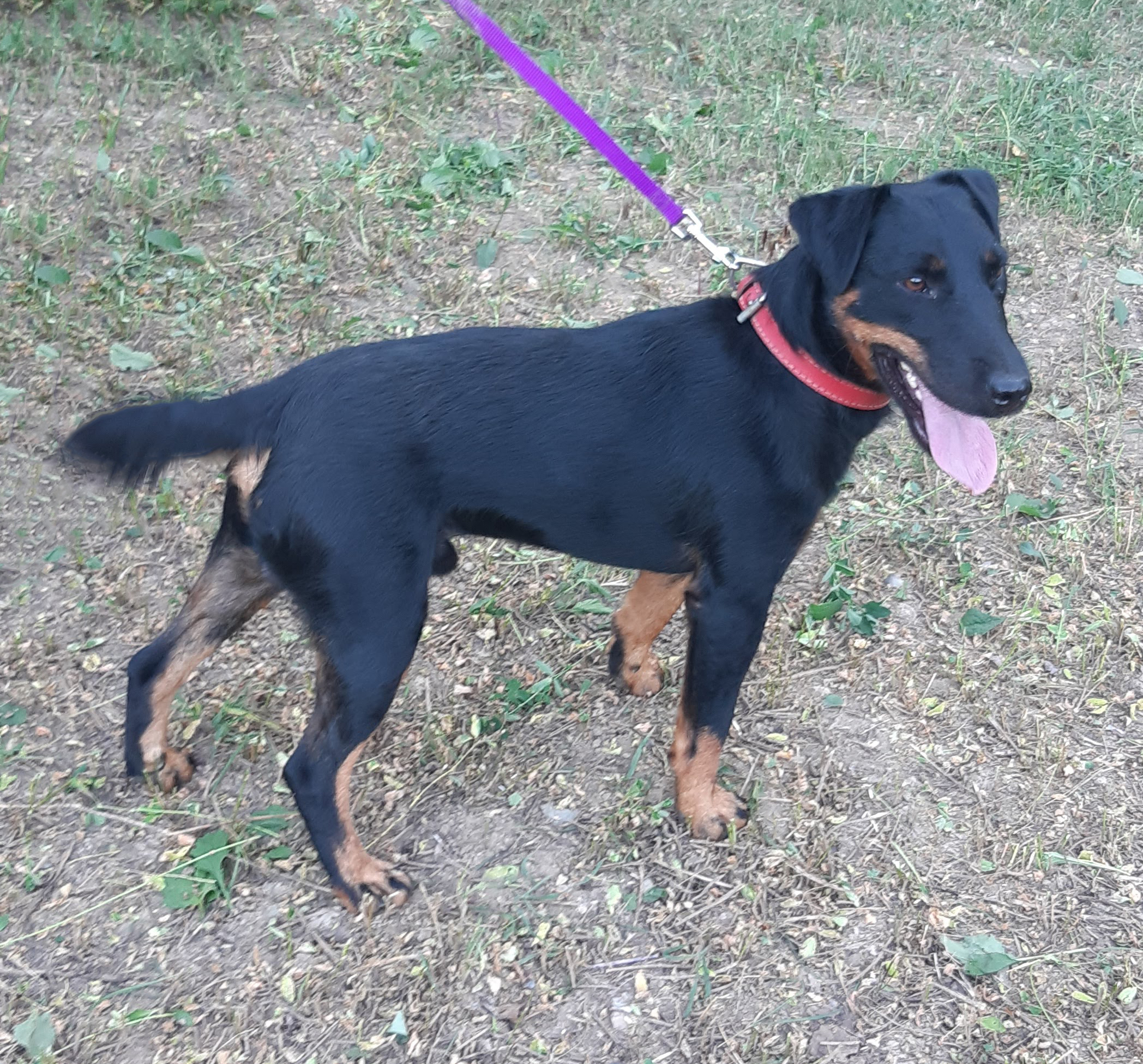 Jagdterrier